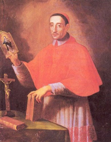 Joseph Maria Tomasi (1649-1713) Cardinal, from the Order of Theatine Regular Clergics